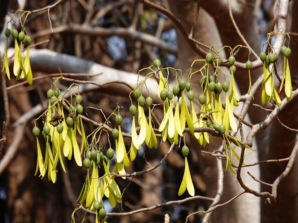 Gyrocarpus americanus Jacq. - rocky ridge in northern Kruger National Park, South Africa